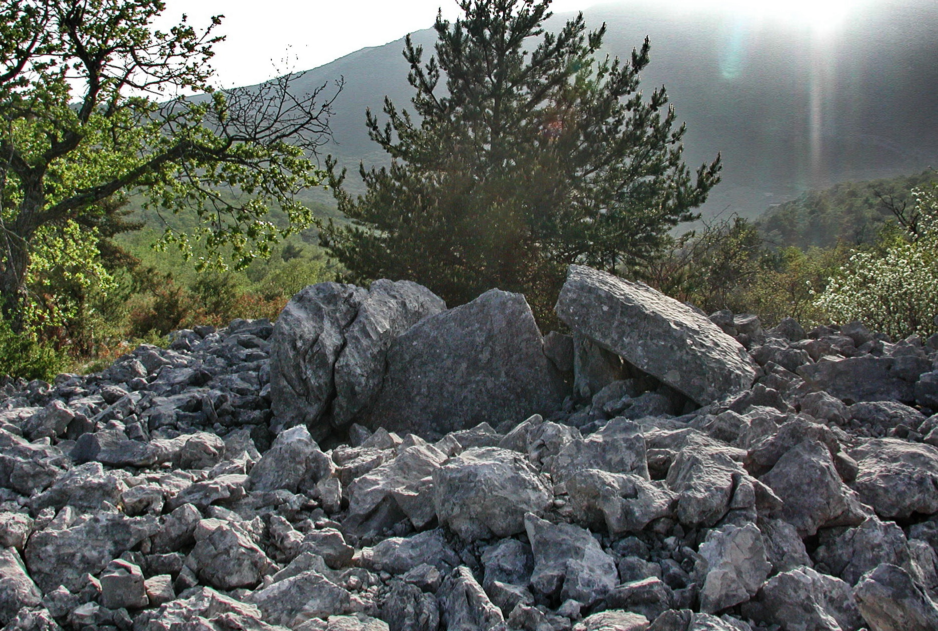 Dolmen des Claps in Escragnolles (06)